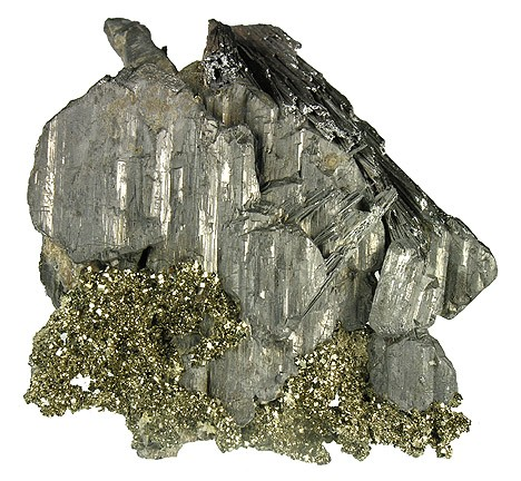 Andorite VI, Zinkenite Locality: San José Mine, Oruro City, Cercado Province, Oruro Department, Bolivia (Locality at ) Size: 4.2 x 3.4 x 1.6 cm. From the find in November 2004. Andorite is lead, silver, antimony sulfosalt and was named for the Hungarian mineral collector Andor von Semsey (1833-1923), who holds a remarkable distinction for having two mineral species named after him (andorite and semseyite). This mine at Oruro dates Spanish mining as far back as the year 1595 and was mined by Incan Indians for several centuries prior. In all the years of mining, the specimens found in 2004 are undoubtedly, the world’s finest Andorites extant. These specimens were extracted from the same vein system worked by the father of Bolivian mineralogy, Federico Ahlfeld. Ahlfeld worked the San Jose mine and Itos mine (the other significant andorite locality at the same mountain in Oruro) when the mines were used predominantly as a major sources of tin to the United States during WWII. The best examples of the species have come from Bolivia. The piece features a few "classic", steel-grey, multi-layered crystal groups aesthetically intermixed with rare, prismatic, lustrous Zinkenite "needles" on pyritohedral Pyrite matrix.